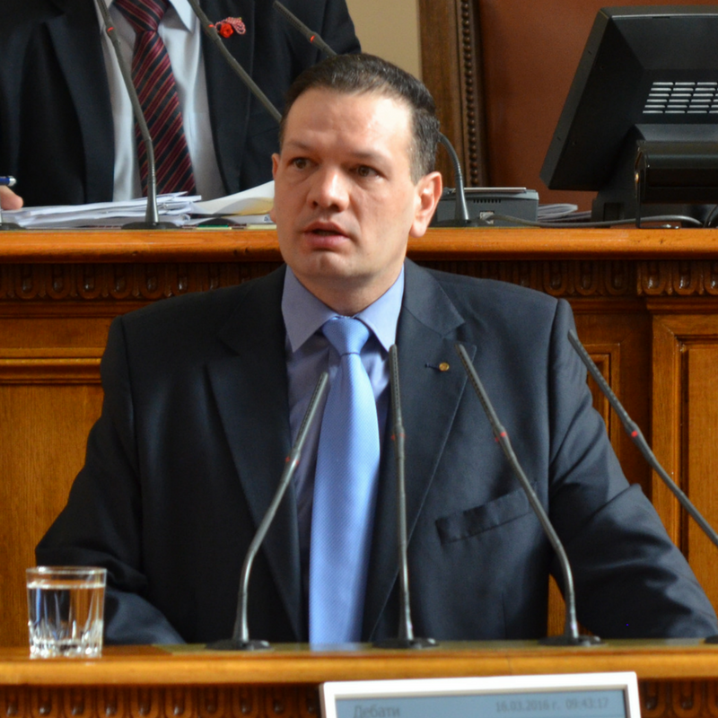 Peter Slavov